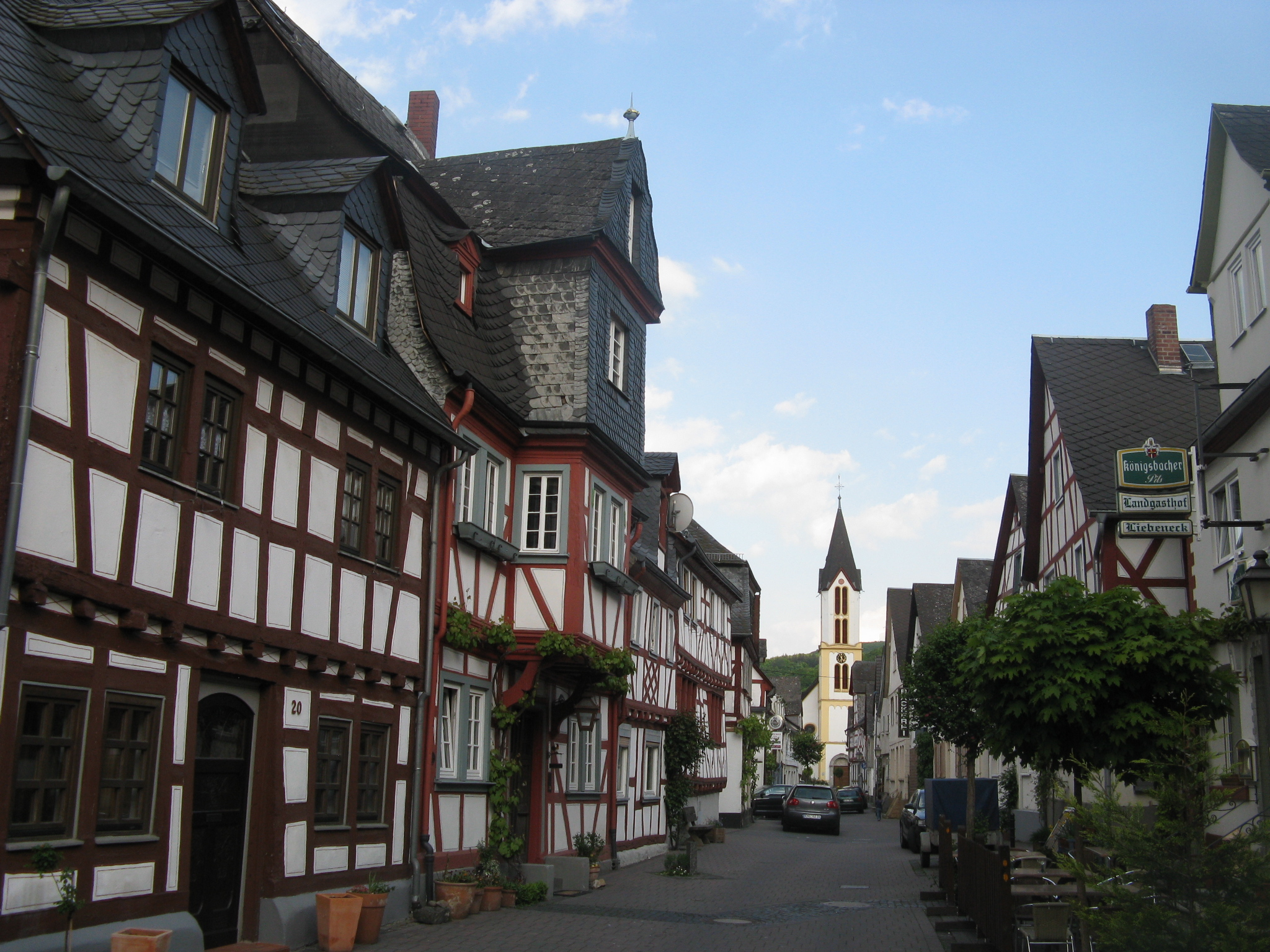 Osterspai, Rhine Valley/Germany, Main Street